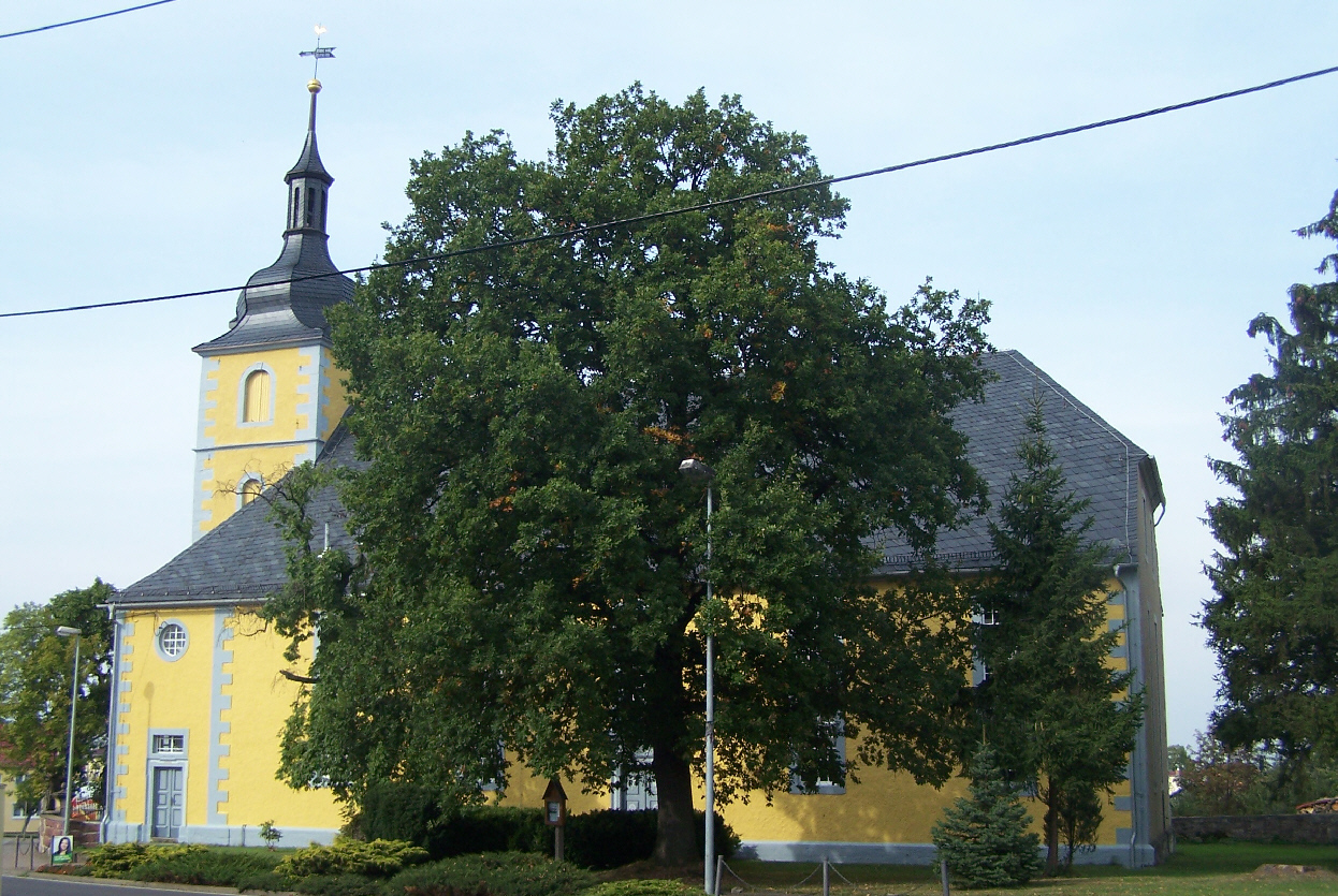 The church in Gräfenhain village.